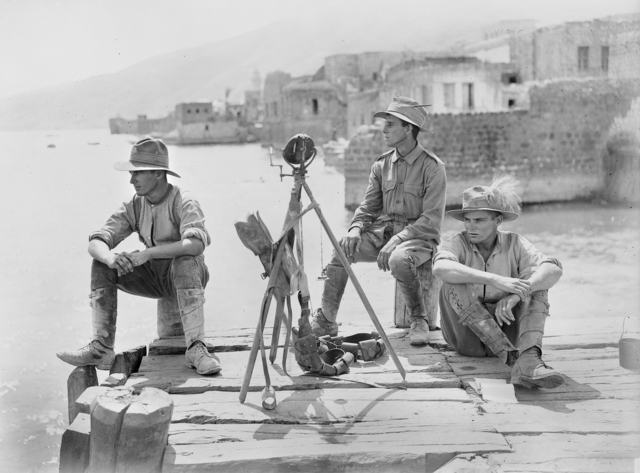 AWM caption : Ottoman Empire: Palestine, North Palestine, Lake Tiberias, Tiberias. Three members of the 8th Australian Light Horse Regimental Signal Station, sit with their heliograph set up on the pier on the Sea of Galilee. This photograph was published in The Kia Ora Coo-ee, 15 November 1918, p. 11, with the following caption: 'A signal post, Tiberias'. The ancient township of Tiberias is on the west bank of Lake Tiberias, also known as the Sea of Galilee.